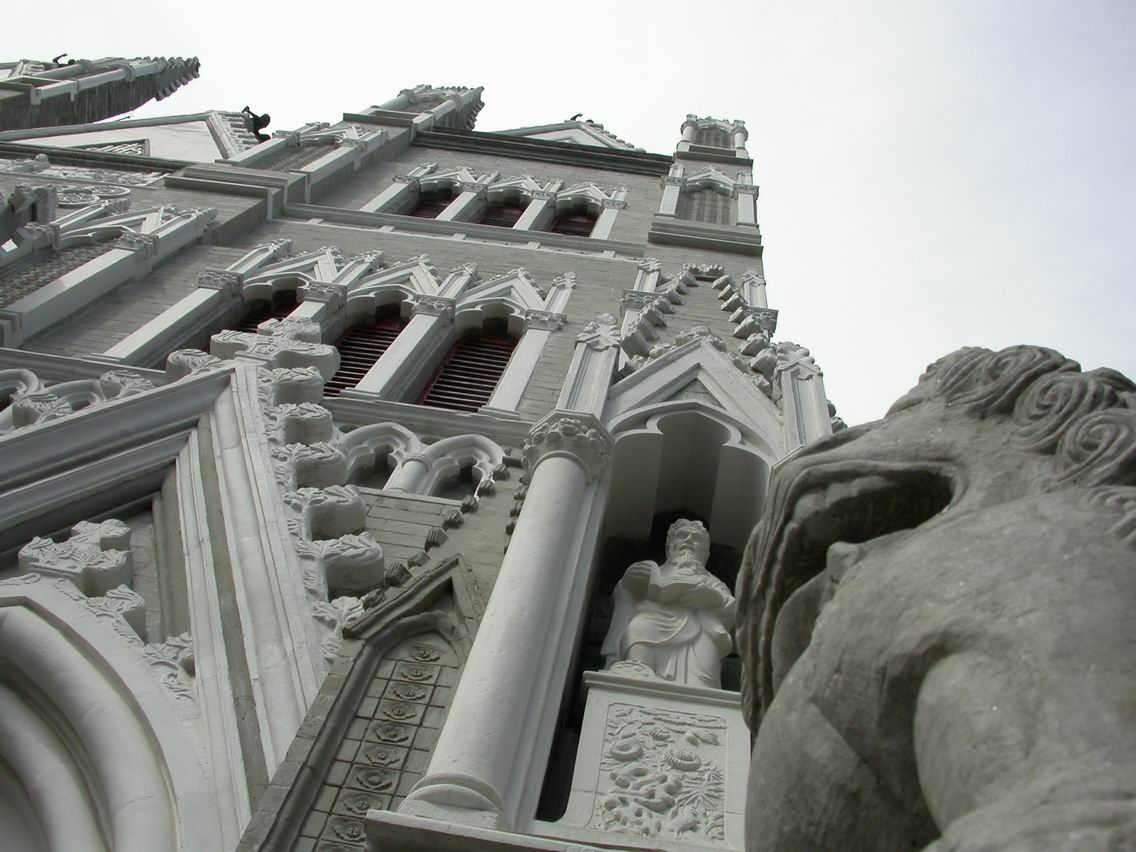 Northen Beijing Church, the biggest church in Beijing which was build in 1703. Here, the correlation and collocation between the Chinese and the European architectures present a unique style.